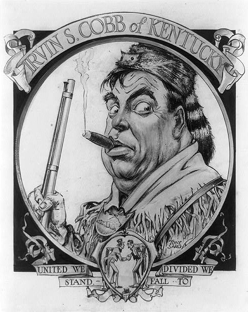 American writer and journalist Irvin S. Cobb (1876-1944) by Tony Sarg (1880-1942). 1 drawing: India ink over pencil, with watercolor, and scraping out on illustration board, 57.8 x 49.4 cm. (sheet). Published as illustration in: "The Glory of the States: Kentucky" by Irvin S. Cobb, "The American Magazine", May, 1916. Library of Congress description: "Author and journalist Irvin S. Cobb appears in a bust-length caricature, framed within a circle. Wearing a coonskin cap and fringed frontier outfit, he smokes a cigar and holds a rifle. A small vignette below the portrait, enclosed in a cartouche, shows two men, presumably native Kentuckians, shaking hands."